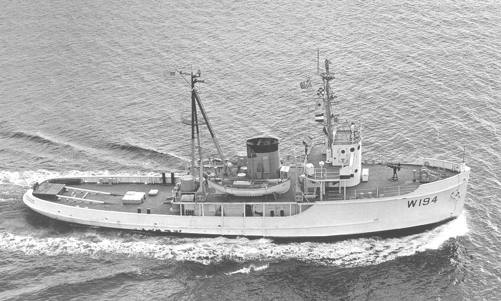 USCGC Modoc (WMEC-194) (ex-USS Bagaduce); no caption/date/photo number; photographer unknown.